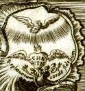 Coat of arms of Brothers of Charity of Saint Hippolytus, religious congregation founded by Fray Bernardino Álvarez at Mexico, from Libro de la vida del proximo evangelico el venerable padre Bernardino Alvarez. por Juan Díaz de Arce (México : Impr. Nueva Antuerpiana, 1762)